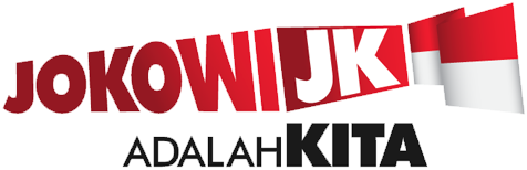 Logo for Joko Widodo 2014 presidential campaign